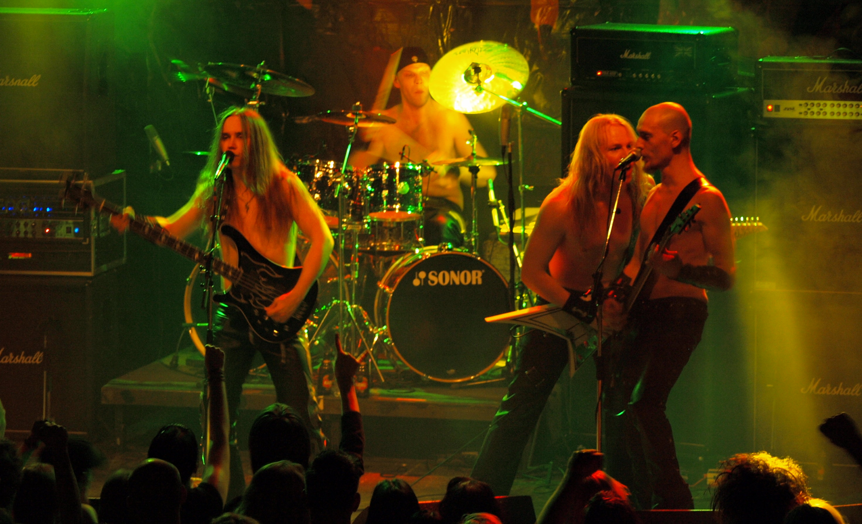 Finnish heavy metal band Teräsbetoni live